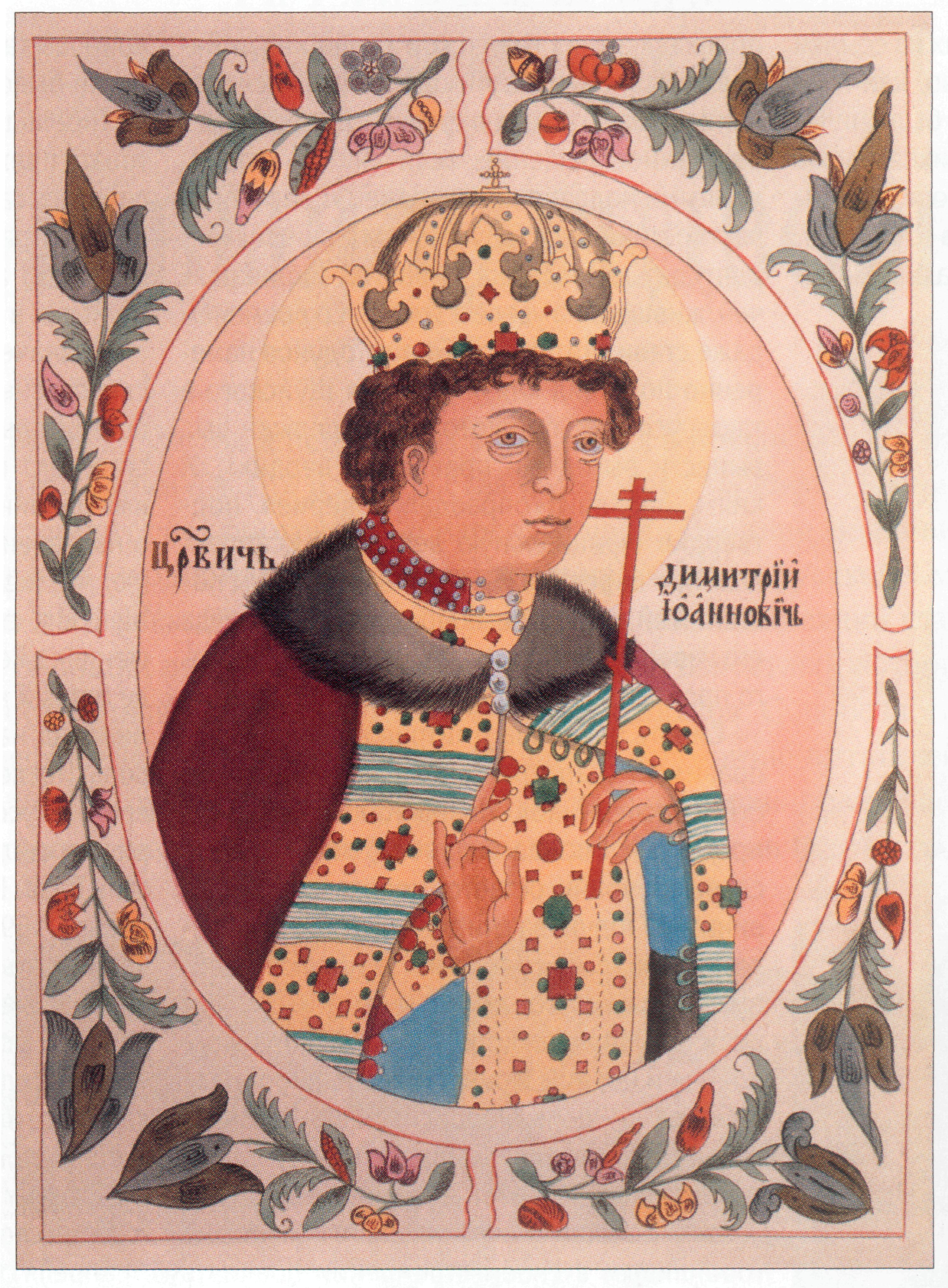 Tsarevitch Dmitrij in "Tsarskiy titulyarnik". Uploaded from ruwiki